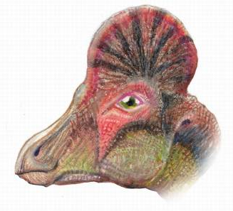 Illustration of the head of Corythosaurus casuarius